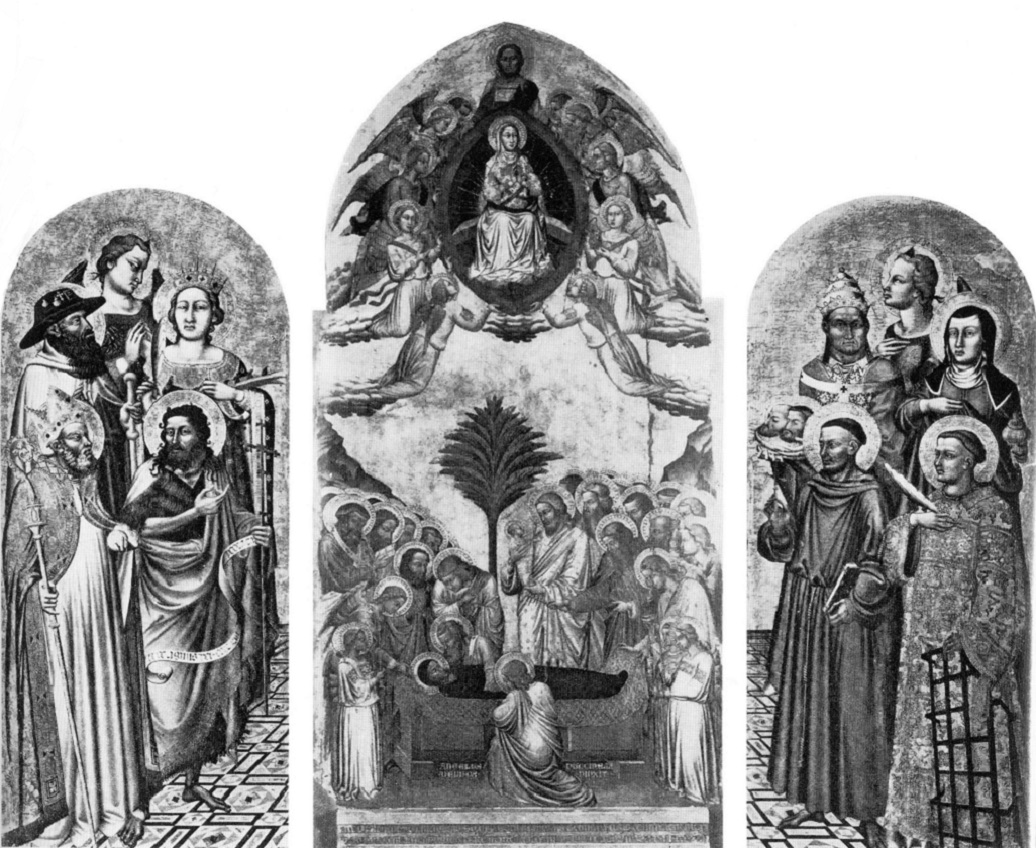 Angelo Puccinelli. Triptych Dormition and Assumption of the Virgin. Reconstruction from Gonzales-Palacios, 1971.